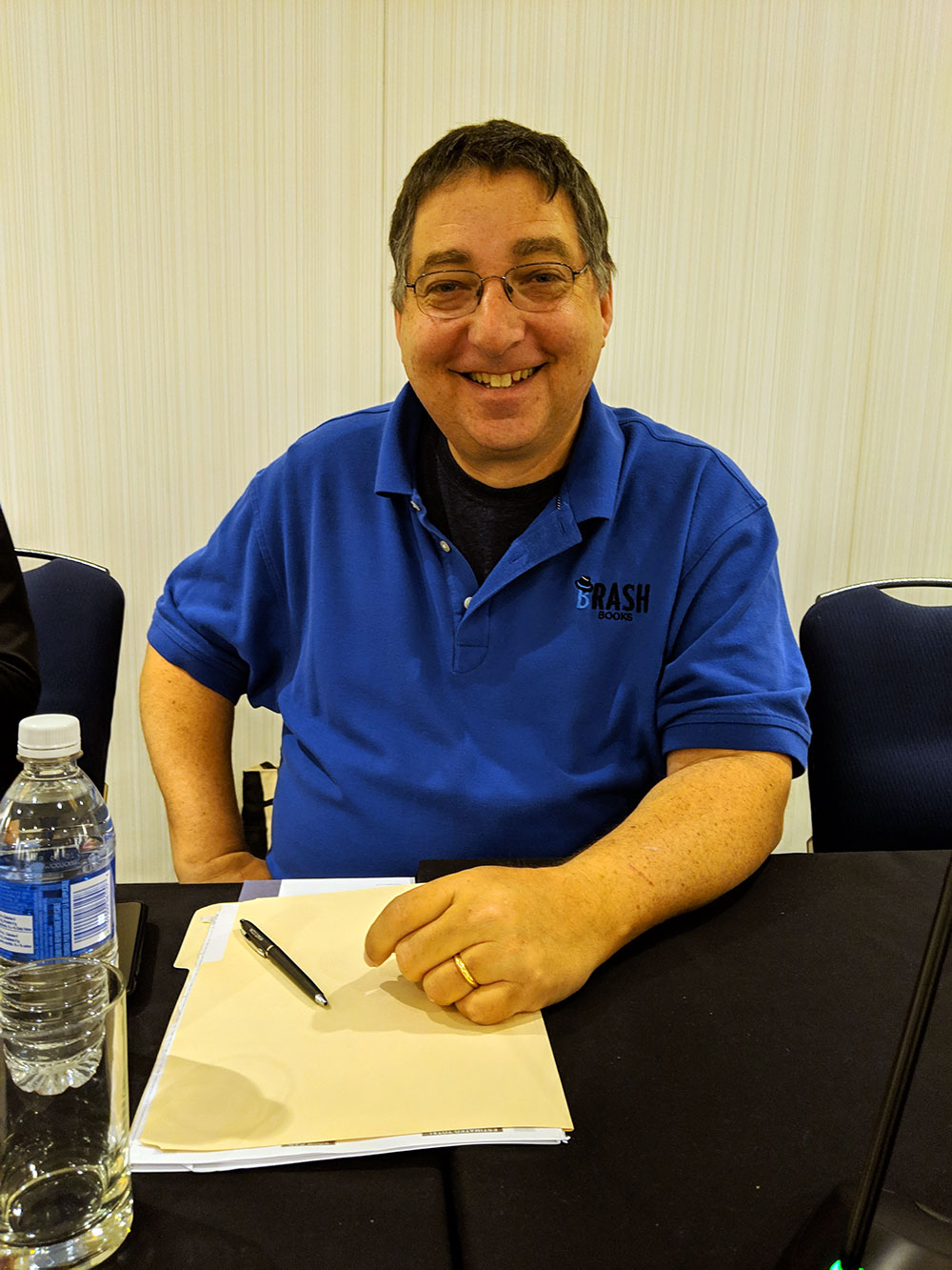 Author Lee Goldberg at the Left Coast Crime mystery conference in Vancouver, B.C., March 28, 2019.